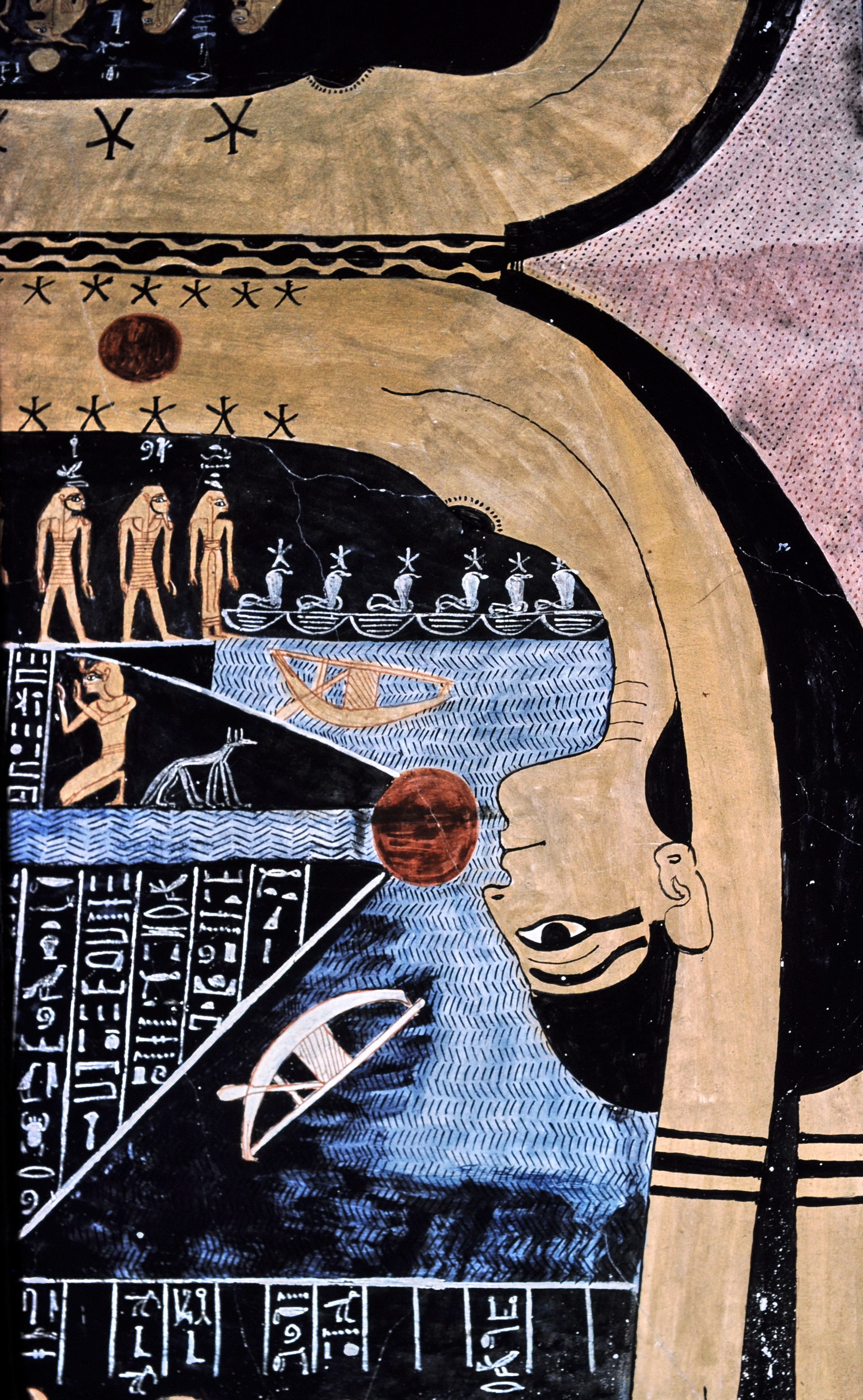 Nut, Egyptian goddess of the sky in the tomb of Ramses VI.